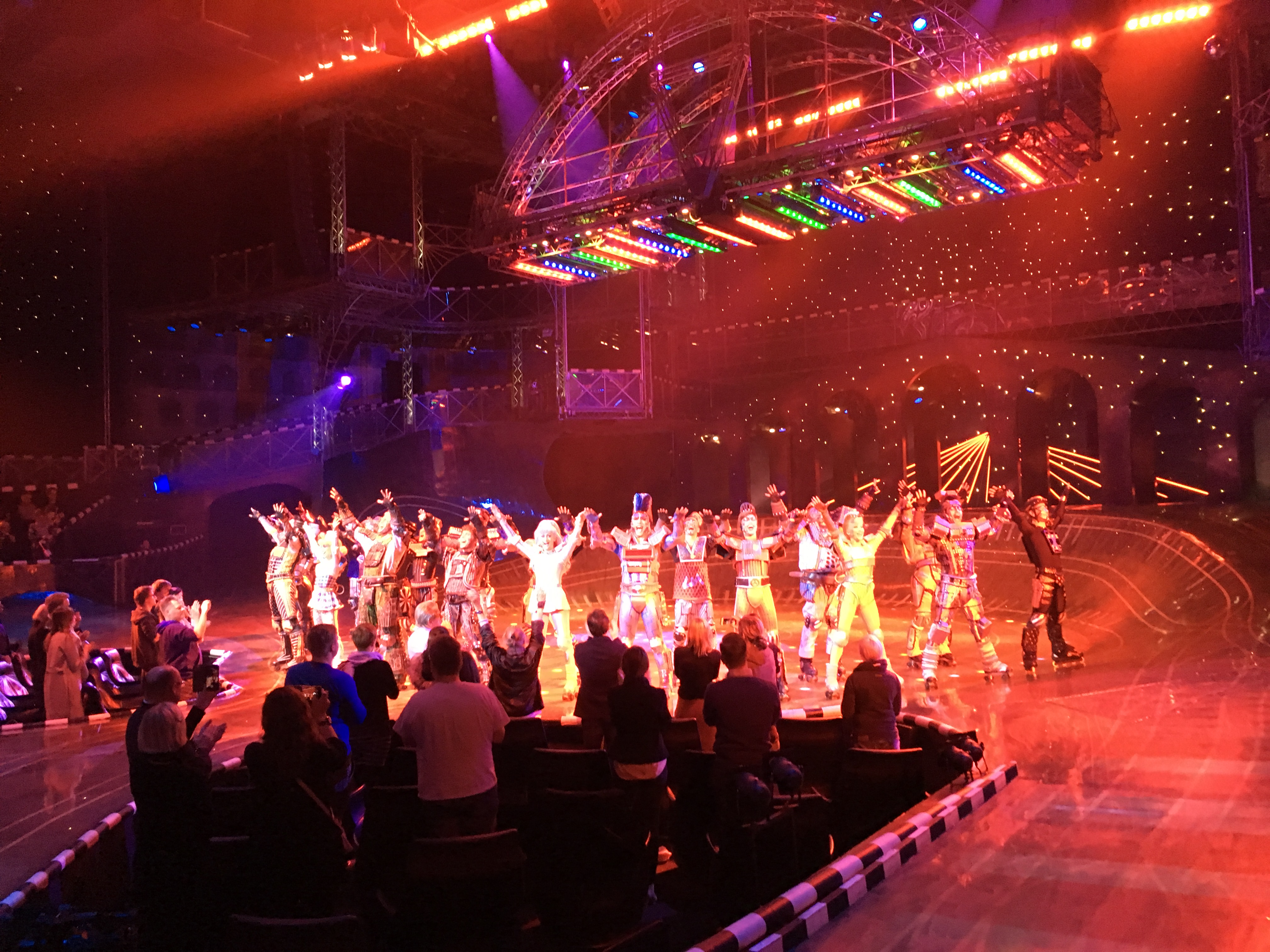 Musical Starlight Express in Starlight Express Theater, Bochum, Germany (March 2018) – 02